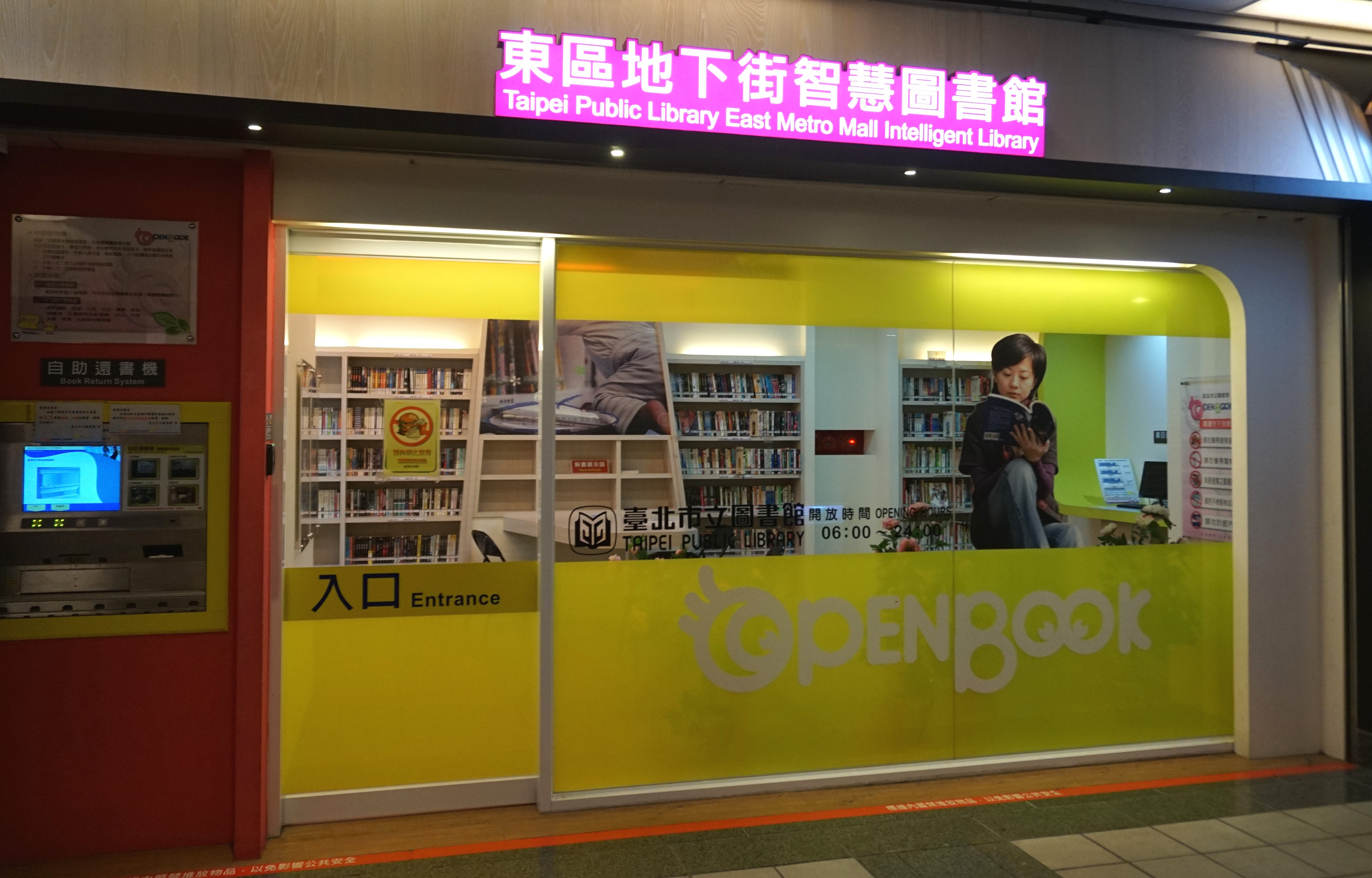 The entrance of East Metro Mall Intelligent Library, Taipei Public Library.